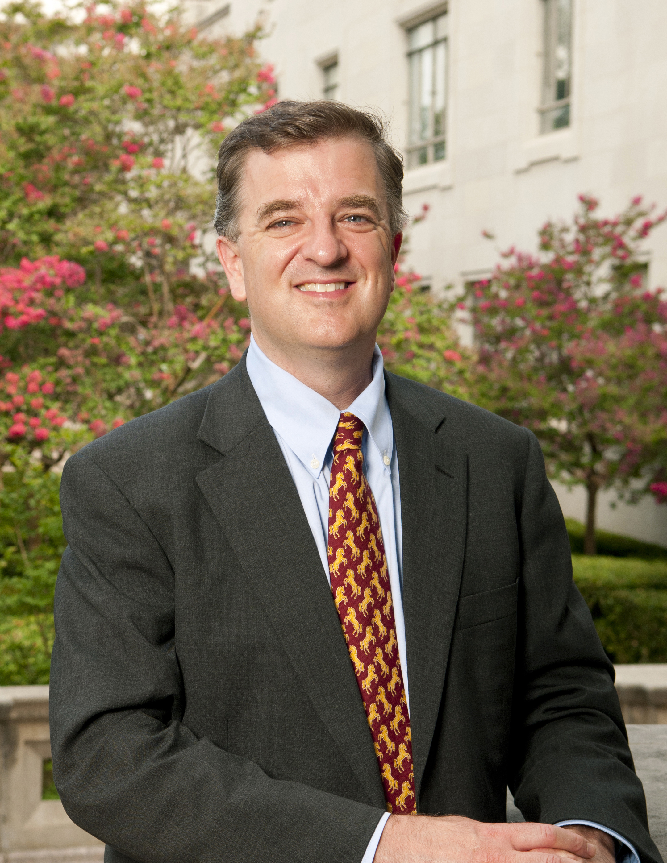 Portrait of Dean Ward Farnsworth outside the University of Texas School of Law.